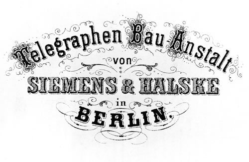 Siemens & Halske